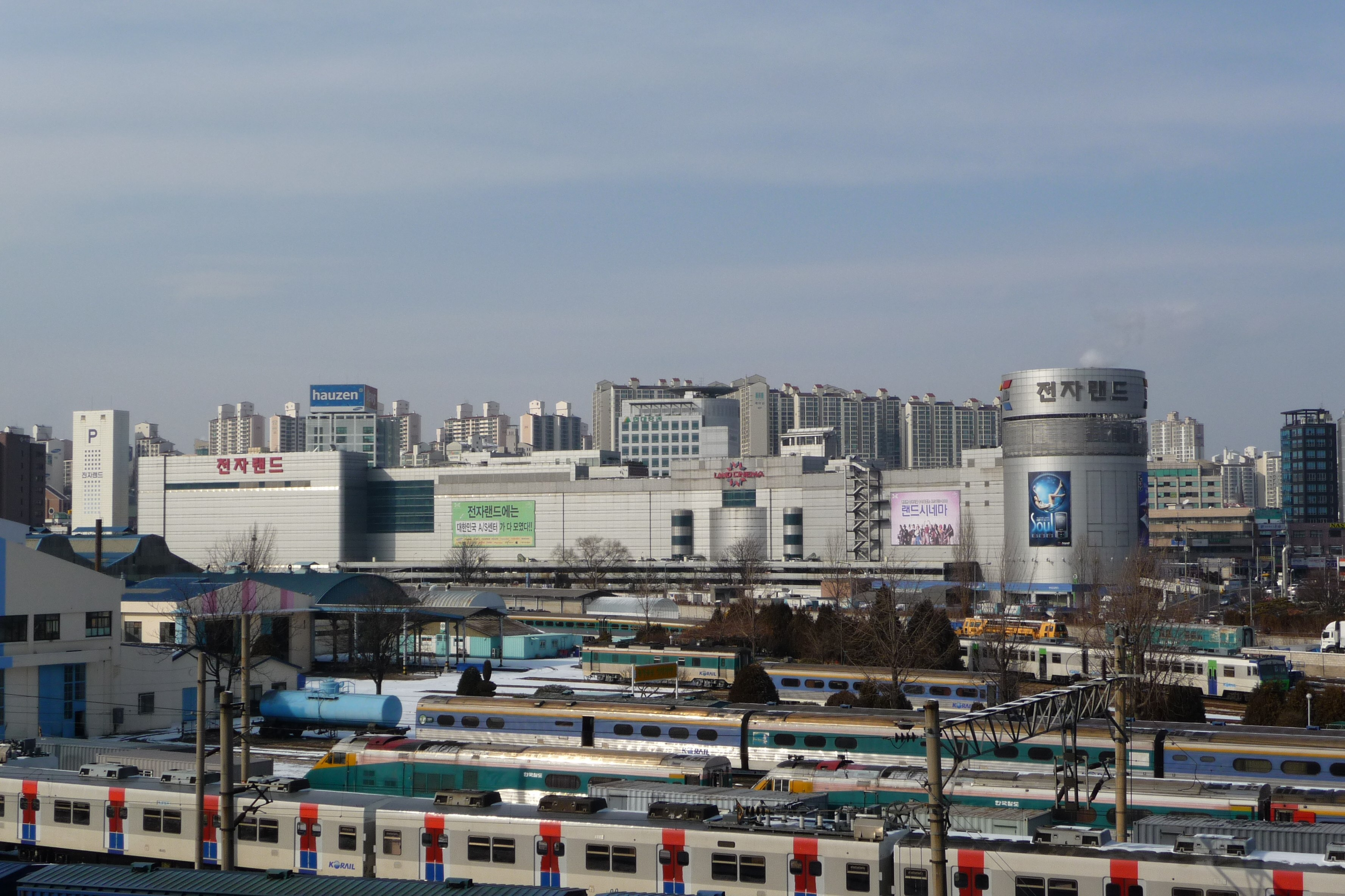 Yongsan, Korea 2009